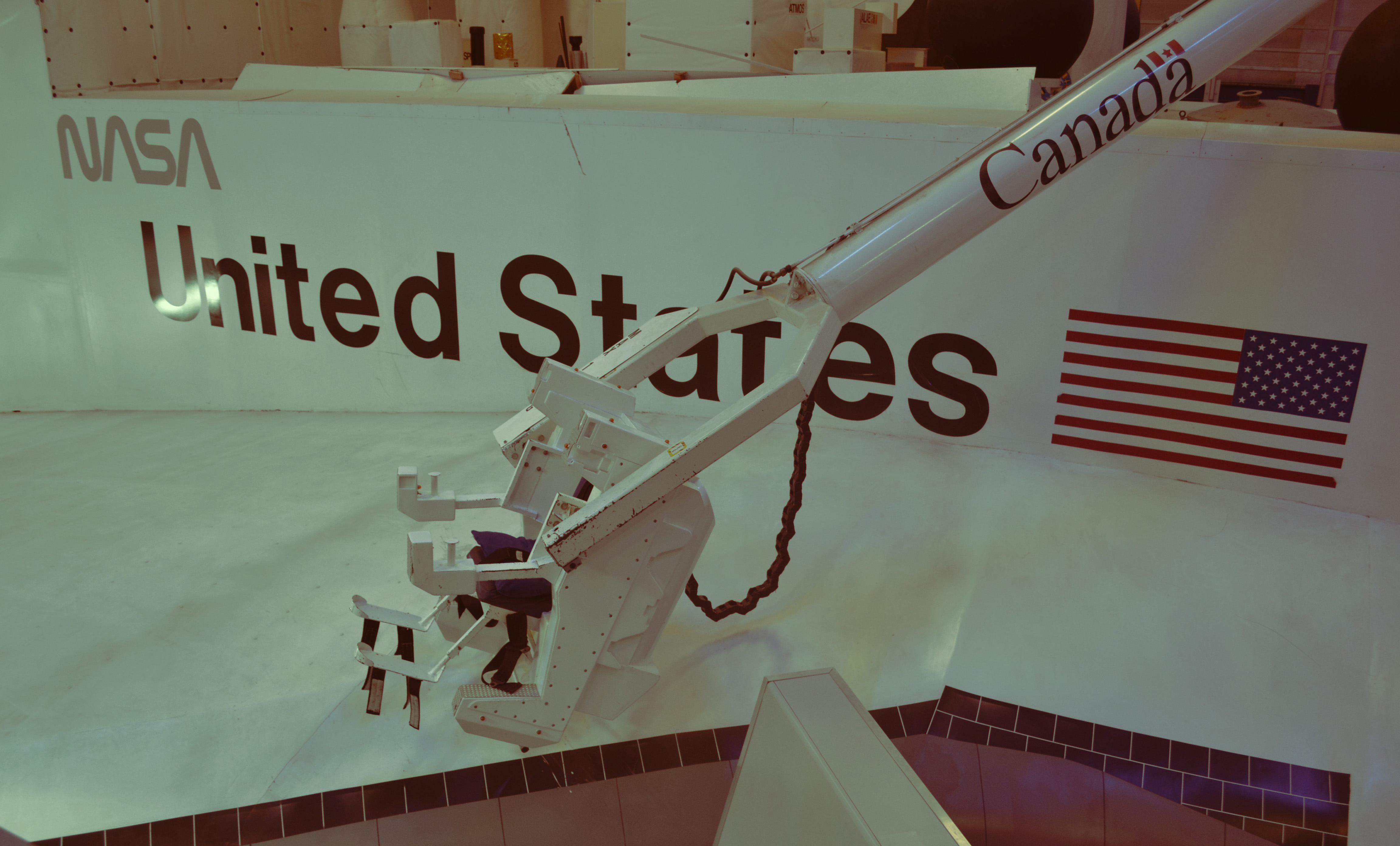 Life Size replica of the The Shuttle Remote Manipulator System (SRMS), also known as Canadarm (Canadarm 1) at the Euro Space Center in Belgium